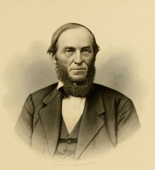 Portrait of New York state assemblyman Willard Johnson (1820-1900)